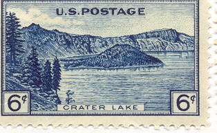 Image of a U.S. Postage Stamp with Crater Lake NP